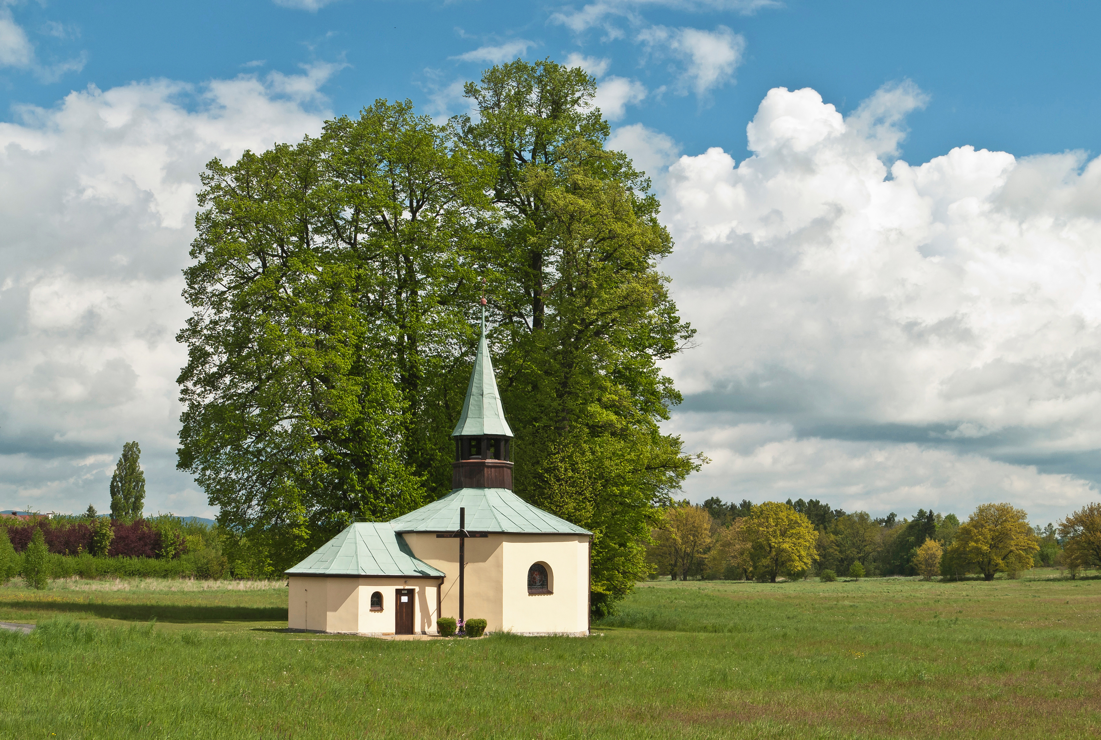 Chapel of Our Lady of Sorrows in Wolany Ta fotografia przedstawia zabytek wpisany do rejestru zabytków pod numerem ID 593126